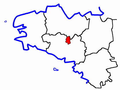 Description: Map for localisazion of cantons of Bretagne region in France Source: made by Hervé Tigier in april 2005 from another large map (published in 1990)